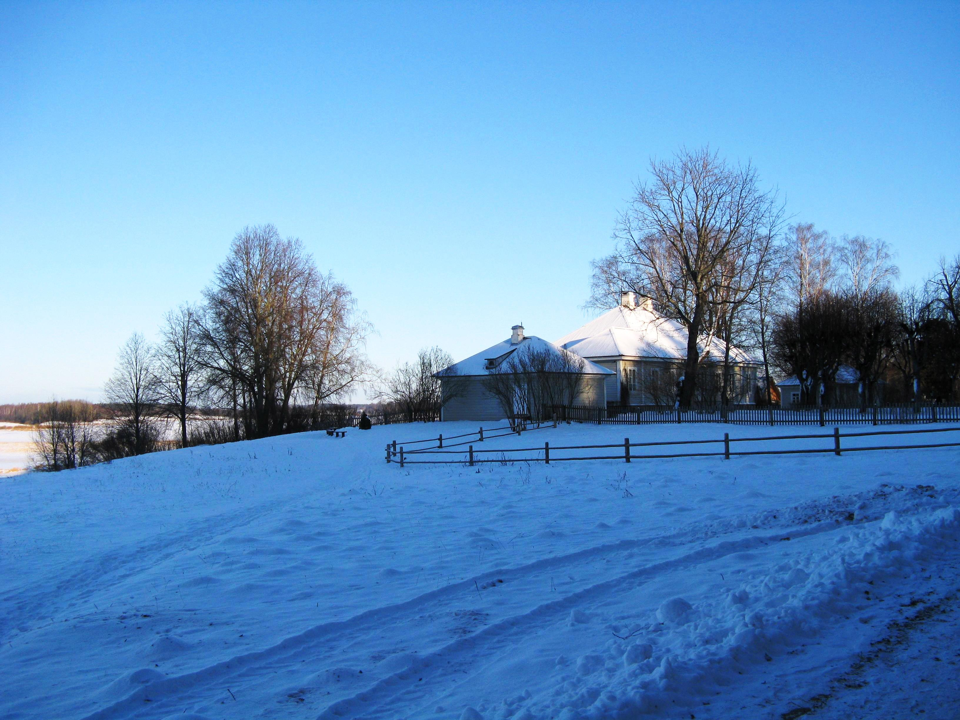 Mikhailovskoye, Russia, in winter